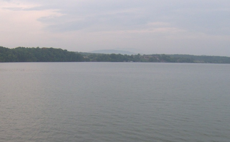 Tellico Lake, near the Fort Loudoun site in Monroe County, Tennessee. Beneath the lake, just right of center, is the Icehouse Bottom site. Before it was flooded, excavations at Icehouse Bottom discovered evidence of human habitation dating back to 7,500 B.C.